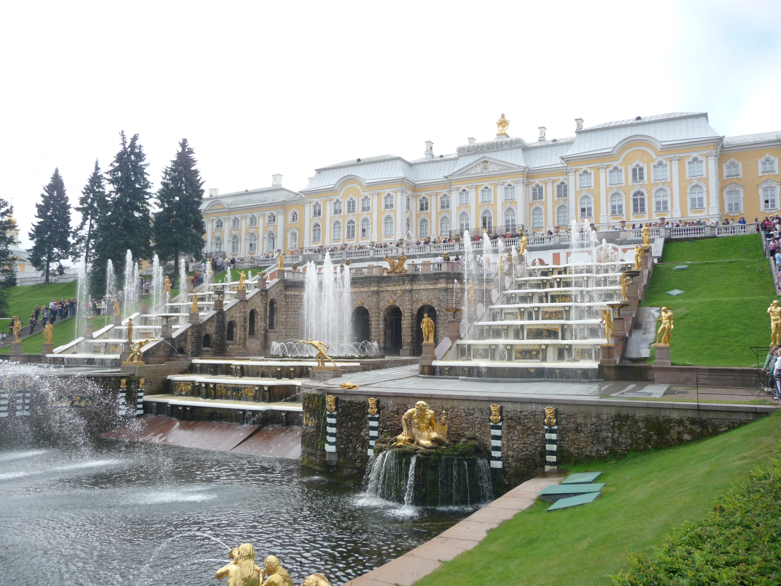 Palace-fountains-p1030868.jpg